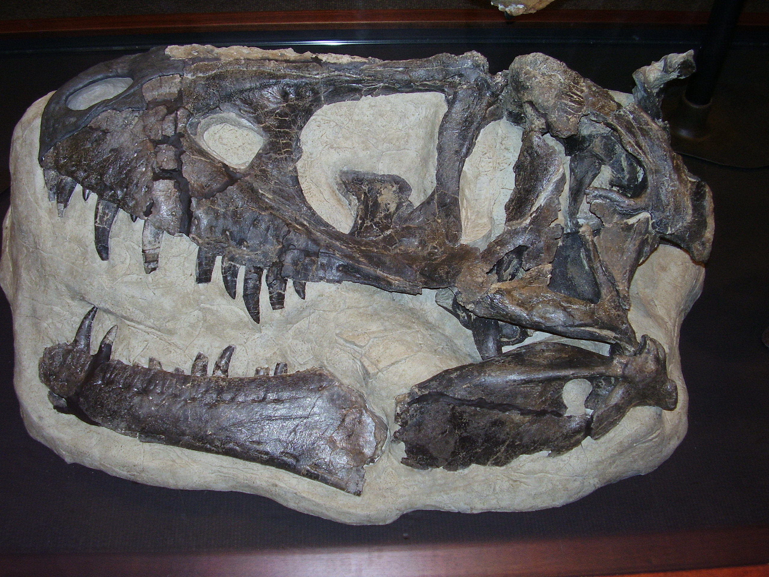 Skull of Daspletosaurus horneri in the Museum of the Rockies.